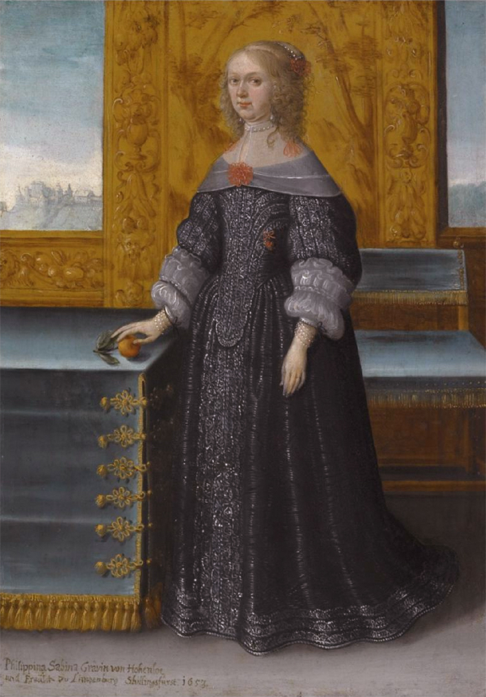 Countess Philippina Sabina von Hohenlohe wearing a black dress